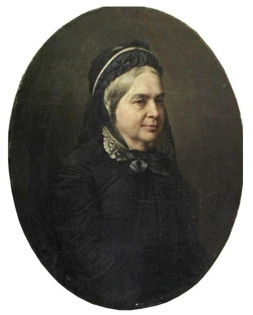 Portrait of Alexandra Ivanovna Heiden (Unknown date — 1883)